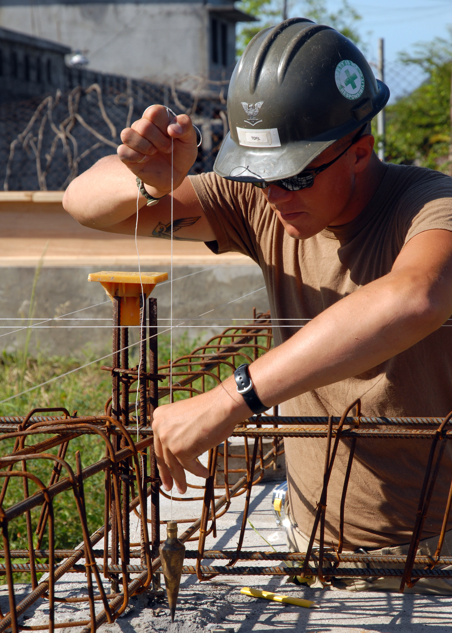 MARONI, Grand Camore (Oct. 8, 2008) Utilitiesman 3rd Class James Tofil, from Naval Mobile Construction Battalion (NMCB) 4, Detachment Comoros, ensures that the grade beams are plumb before the placement of concrete during the construction of the Hamramba School in the town of Maroni at Comoros Island. NMCB-4 is on a six-month deployment supporting Combined Joint Task Force-Horn of Africa. (U.S.Navy photo by Mass Communication Specialist 2nd Class Ronald Gutridge/Released)